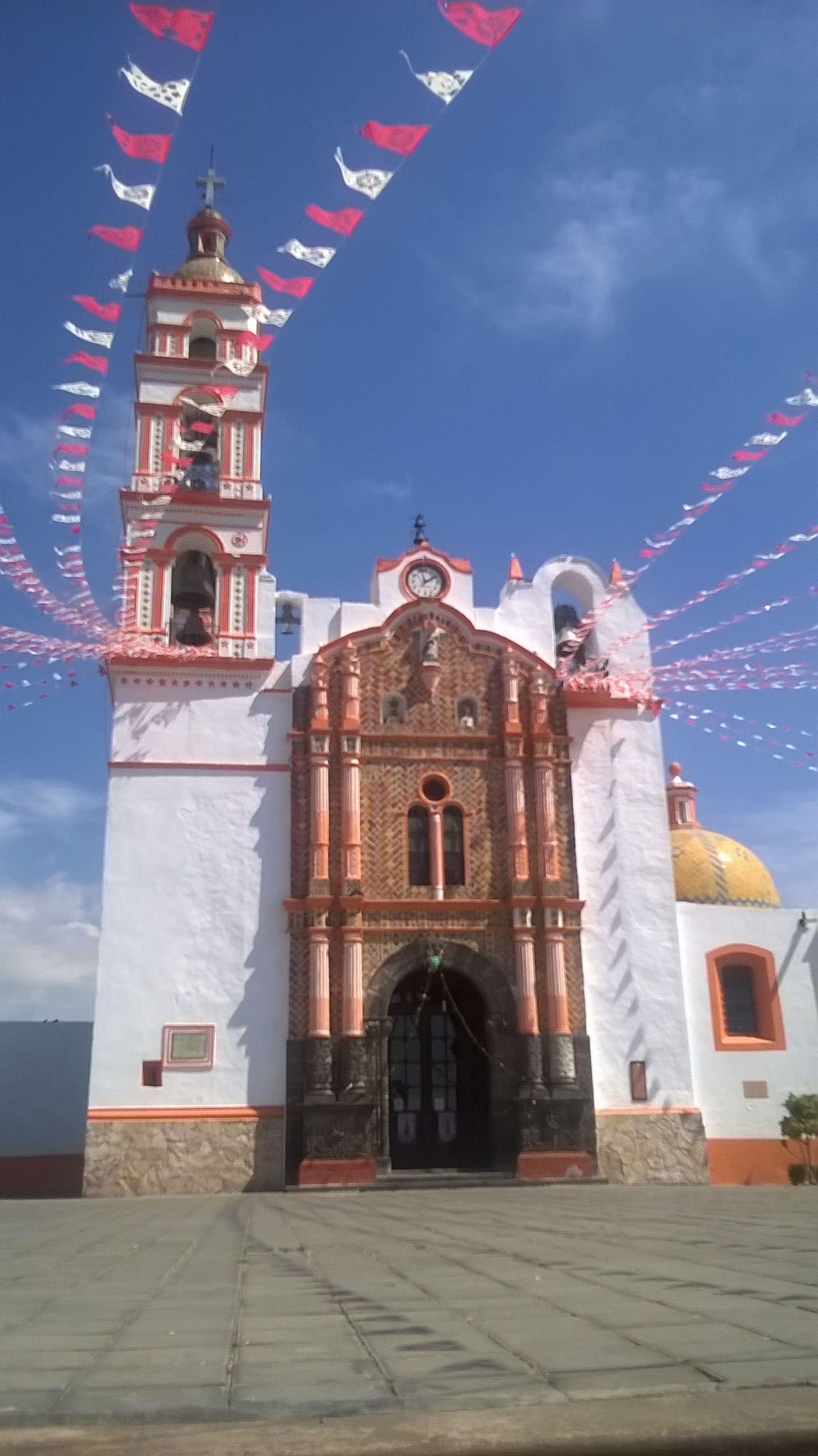 Saint Francis Parish in Papalotla de Xicoténcatl, Tlaxcala